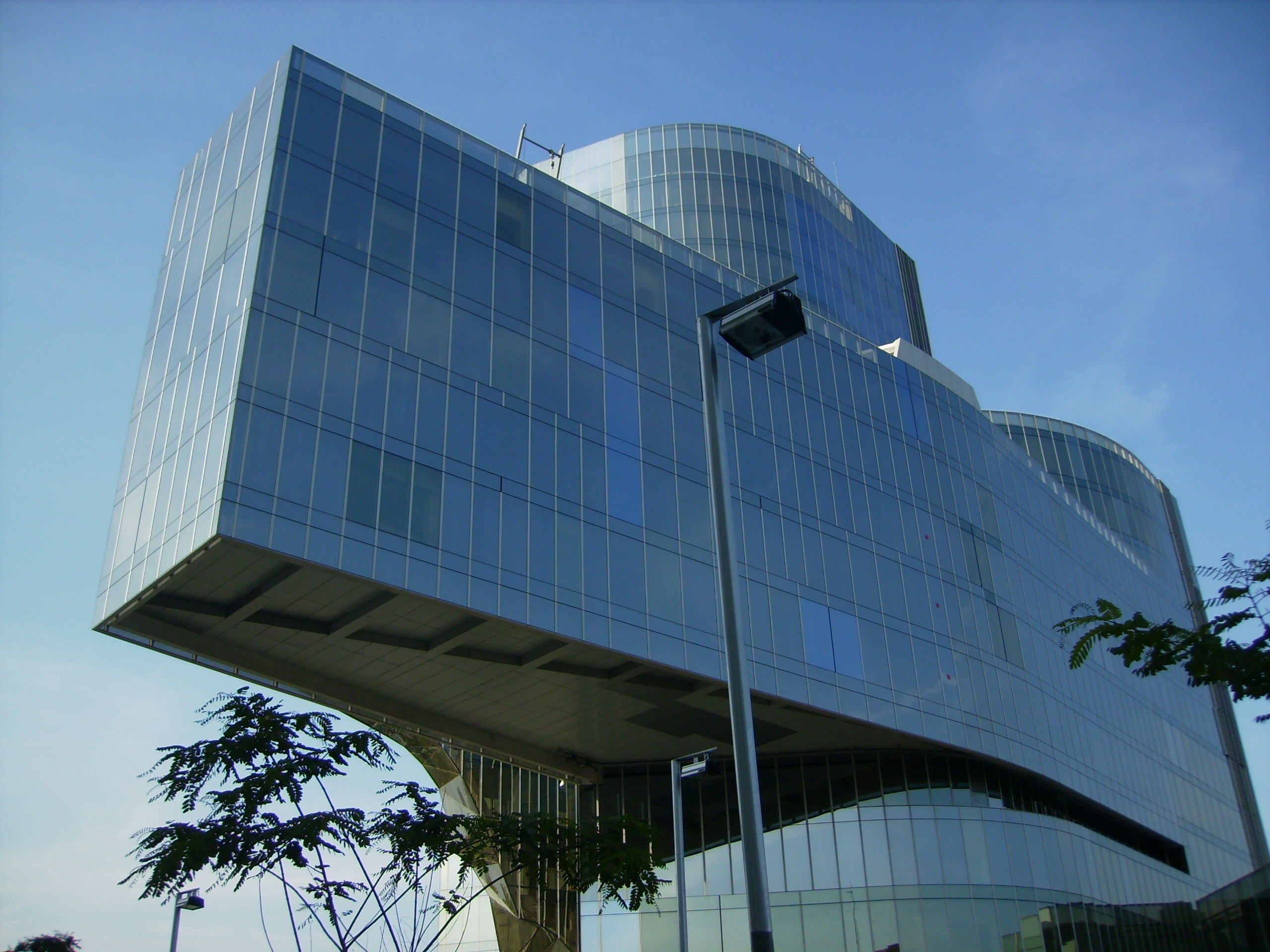 Gas Natural Company building in Barcelona, Catalonia.